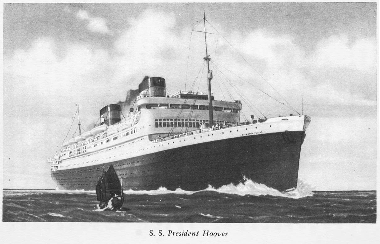 Dollar Lines' turbine steamship President Hoover, built in 1930 and lost in 1937